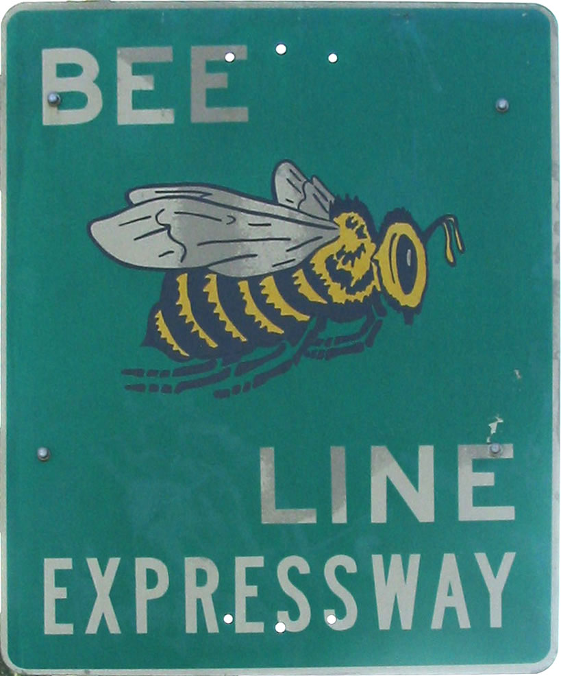 Photo of the old shield for the Bee Line Expressway, taken August 18, 2002 by SPUI. I release whatever rights I have to the photo. The bottom is annoyingly curved, as the photo was at an angle, and I had to transform it with Photoshop. The sign's design was first published before 1978 in the U.S. without a copyright notice.